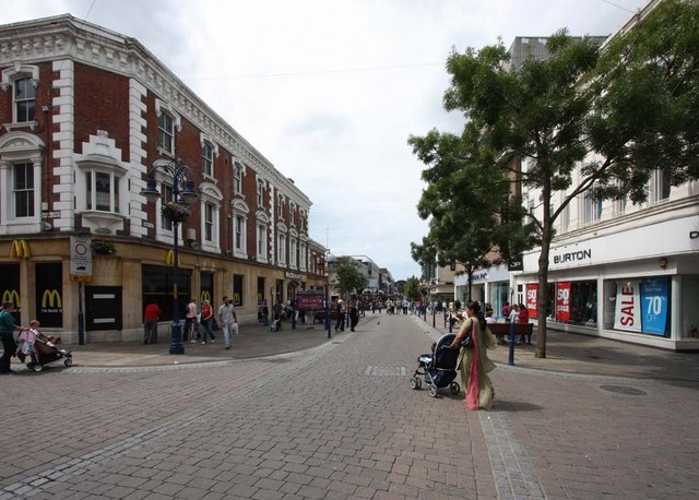 Junction New Street & Windmill Street